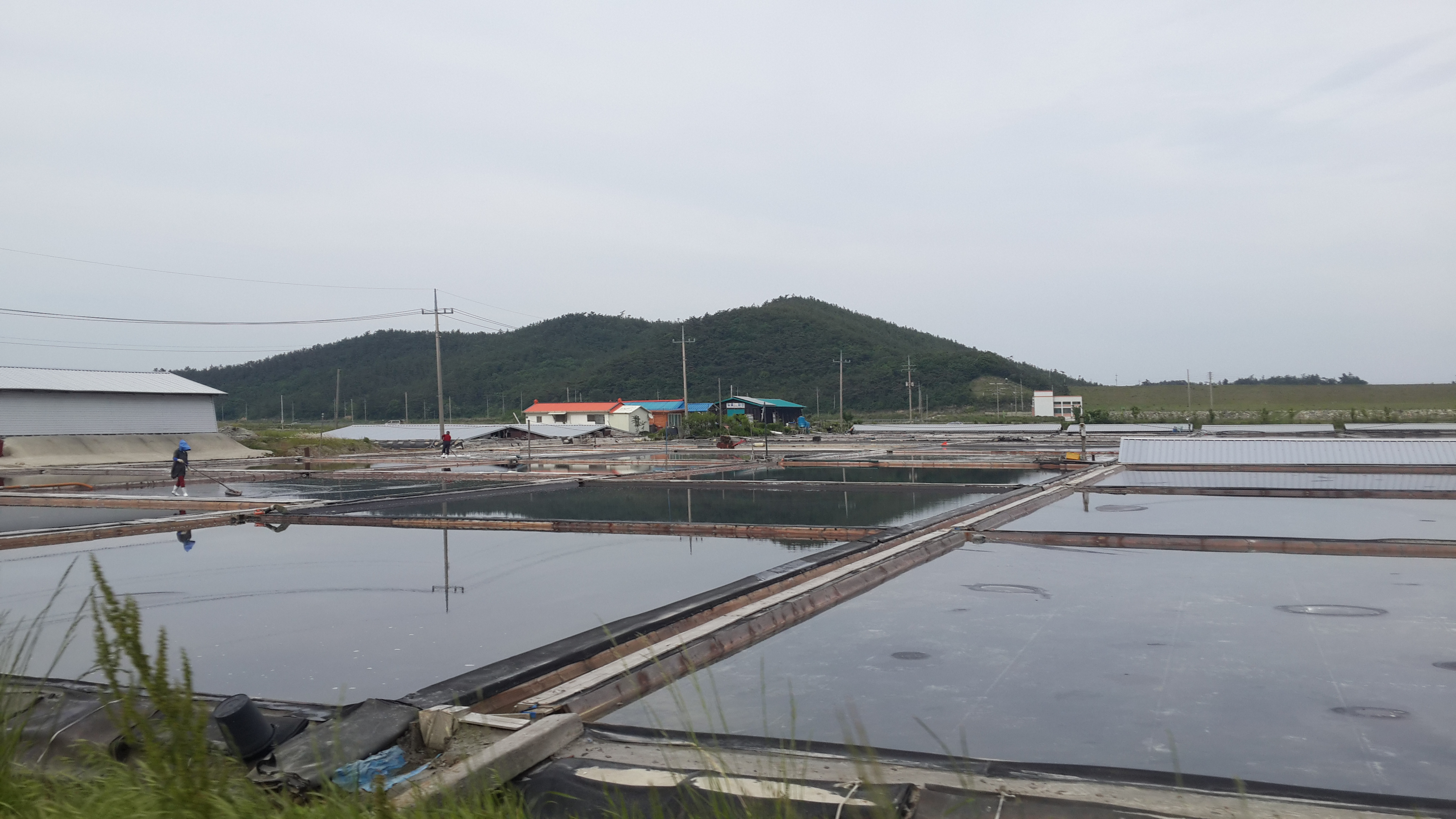 Salt evaporation fields in Sinan county, Jeollanam-do, South Korea.